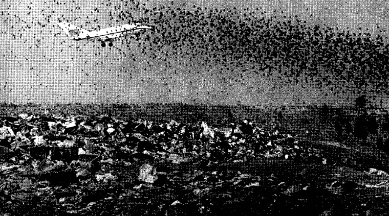 An National Transportation Safety Board image of the landfill site, which was located at DeKalb-Peachtree Airport, taken while investigating the 1973 DeKalb-Peachtree Airport Learjet 24 crash incident